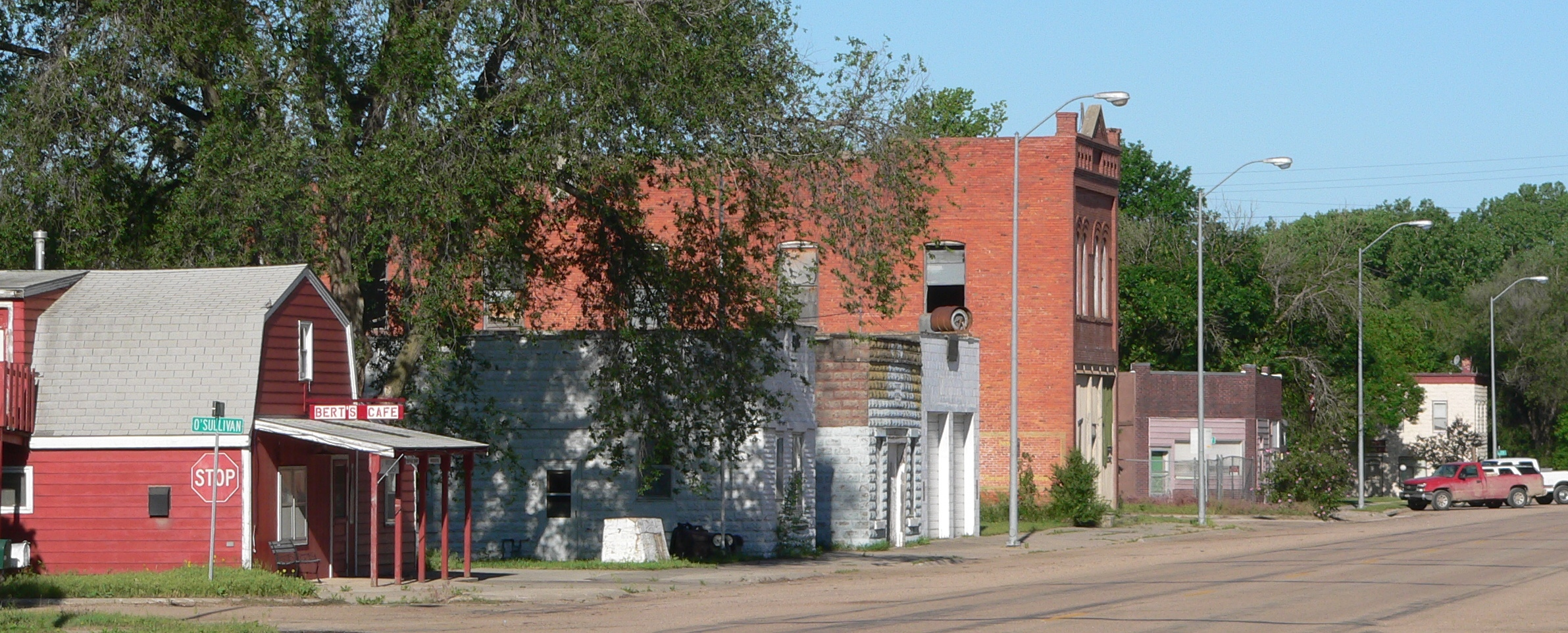 Downtown Riverton, Nebraska: south side of U.S. Highway 136, seen looking west from near Valley Street.